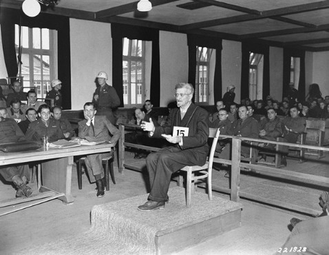 Dr. Klaus Karl Schilling, a physician who infected over one thousand prisoners with malaria in his experiments at the Dachau camp, defends himself at the trial of former camp personnel and prisoners from Dachau.